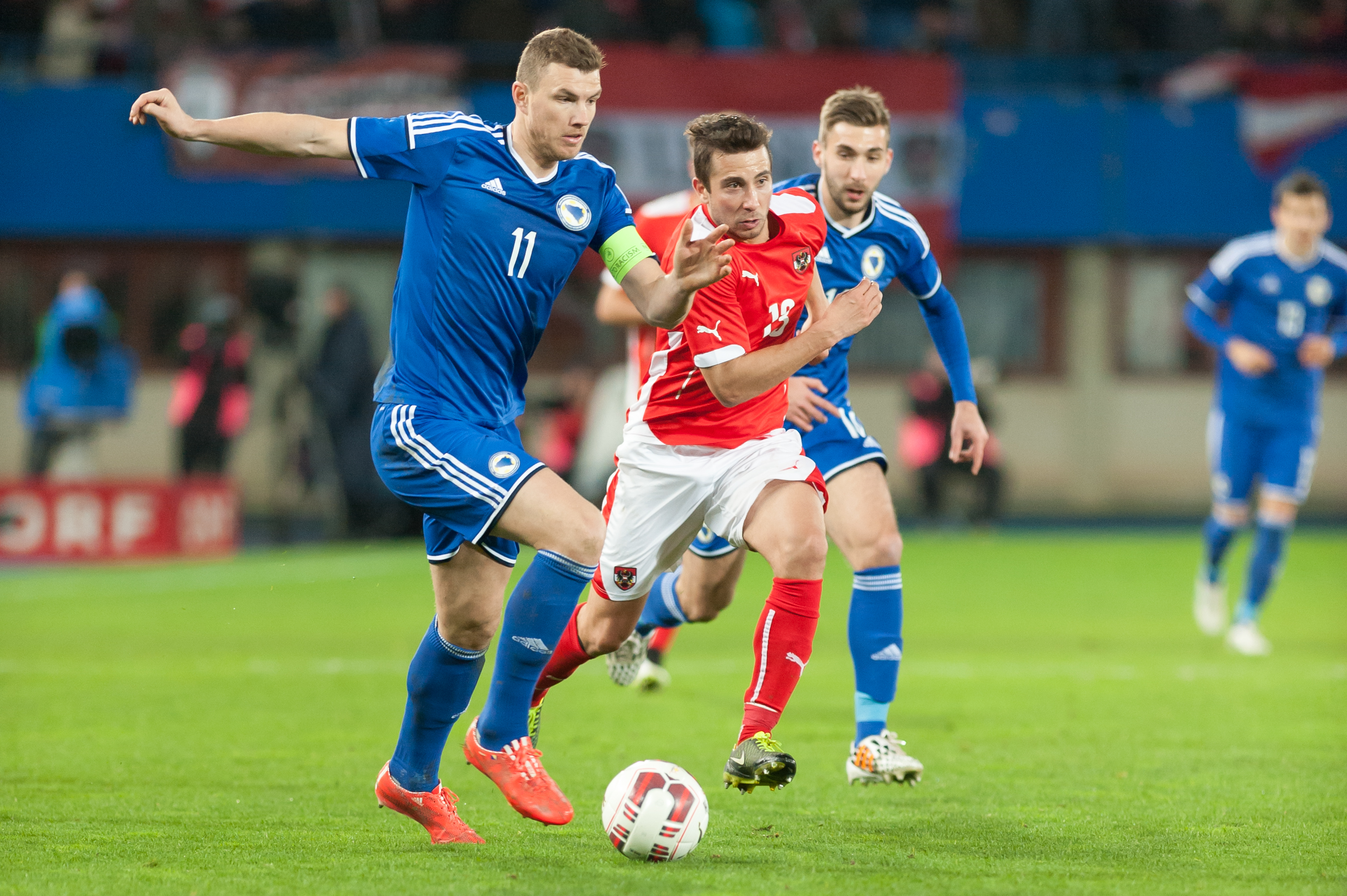 International friendly Austria vs. Bosnia and Herzegovina, 2015-03-31, Vienna